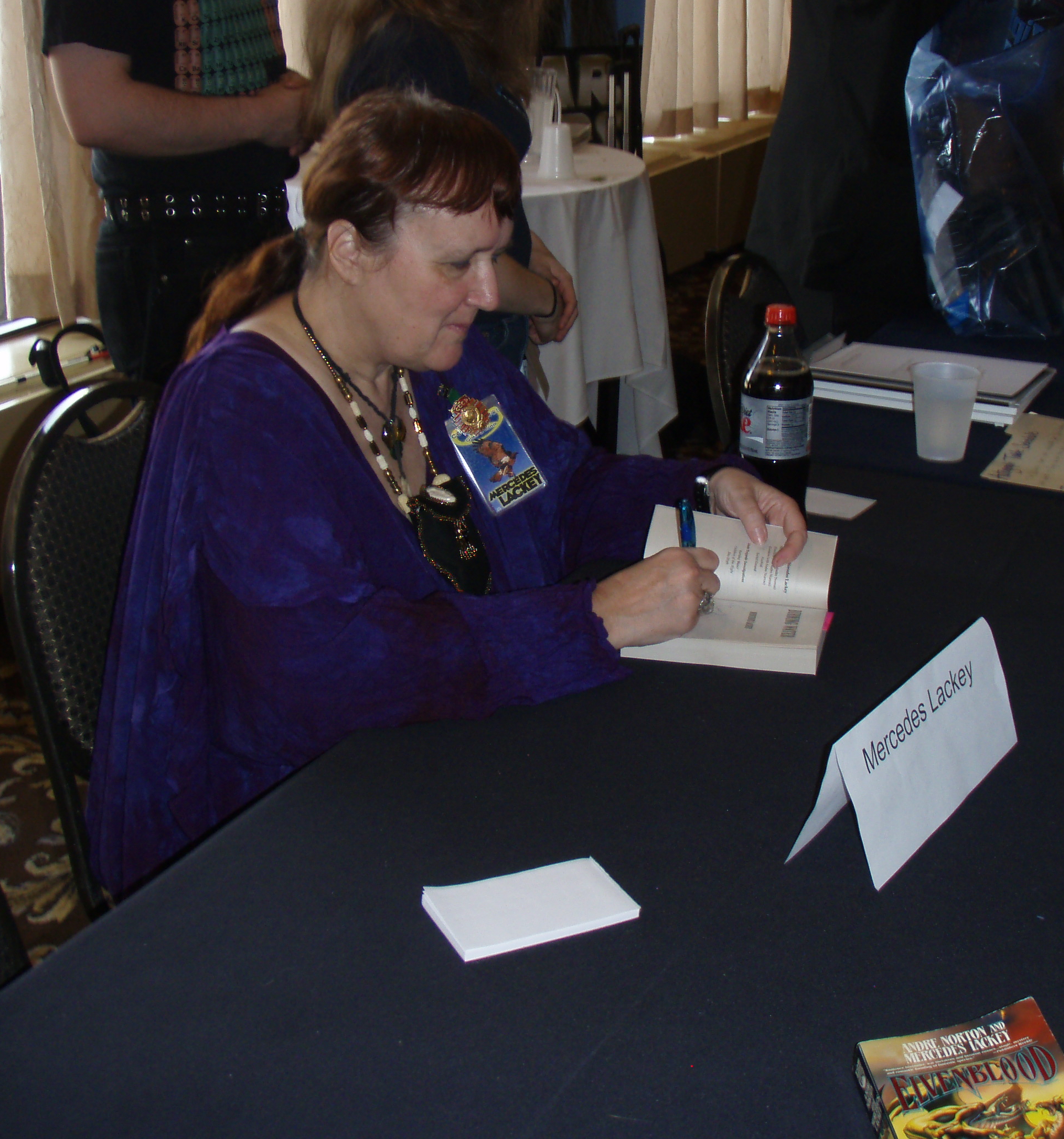 Author Mercedes Lackey giving autographs at CONvergence.